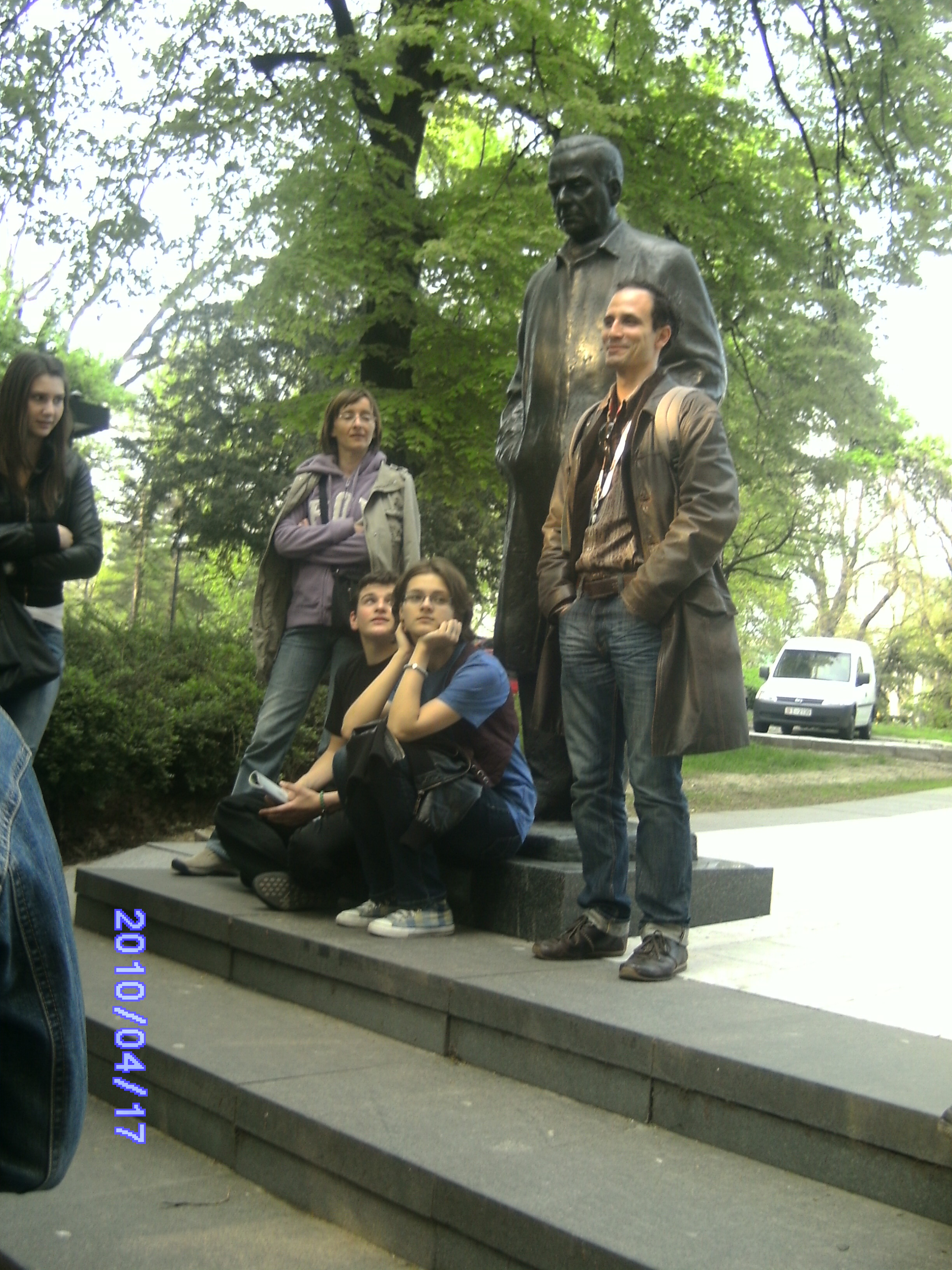 SPOG students in Belgrade.JPG